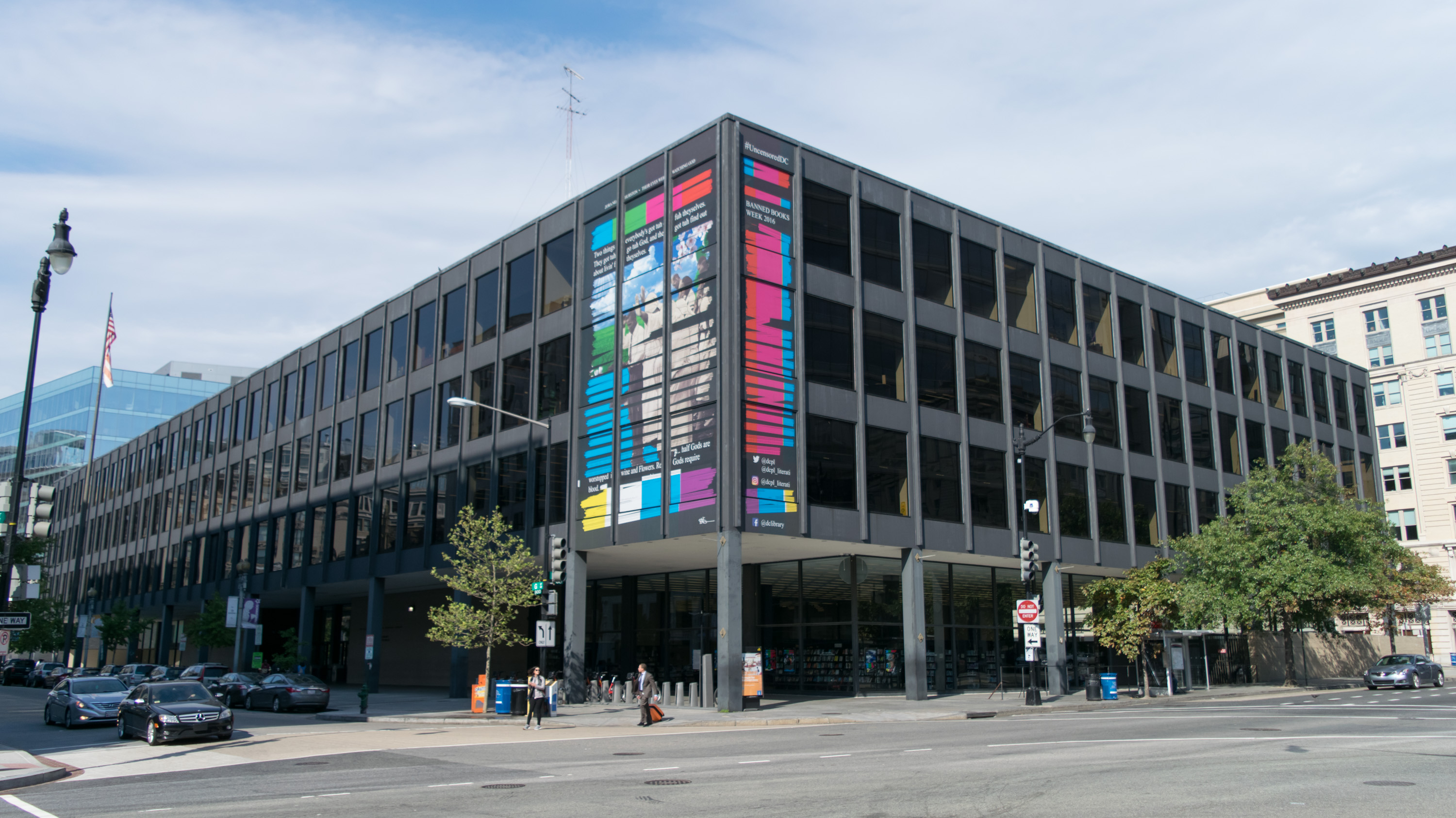 Martin Luther King Jr. Memorial Library viewed from the southeast corner. The library's facade features a promotion for Banned Books Week 2016, which had recently taken place.